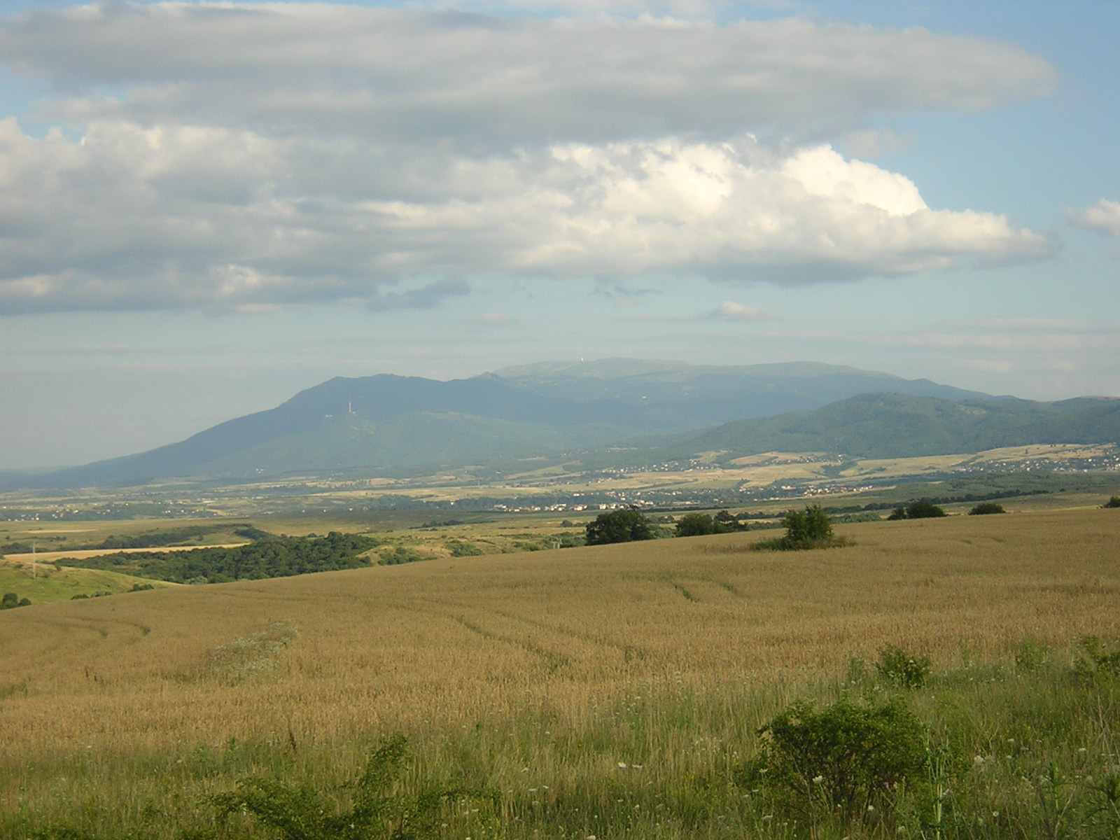 Mount Vitosha from the Northwest, near the village of Pozharevo.